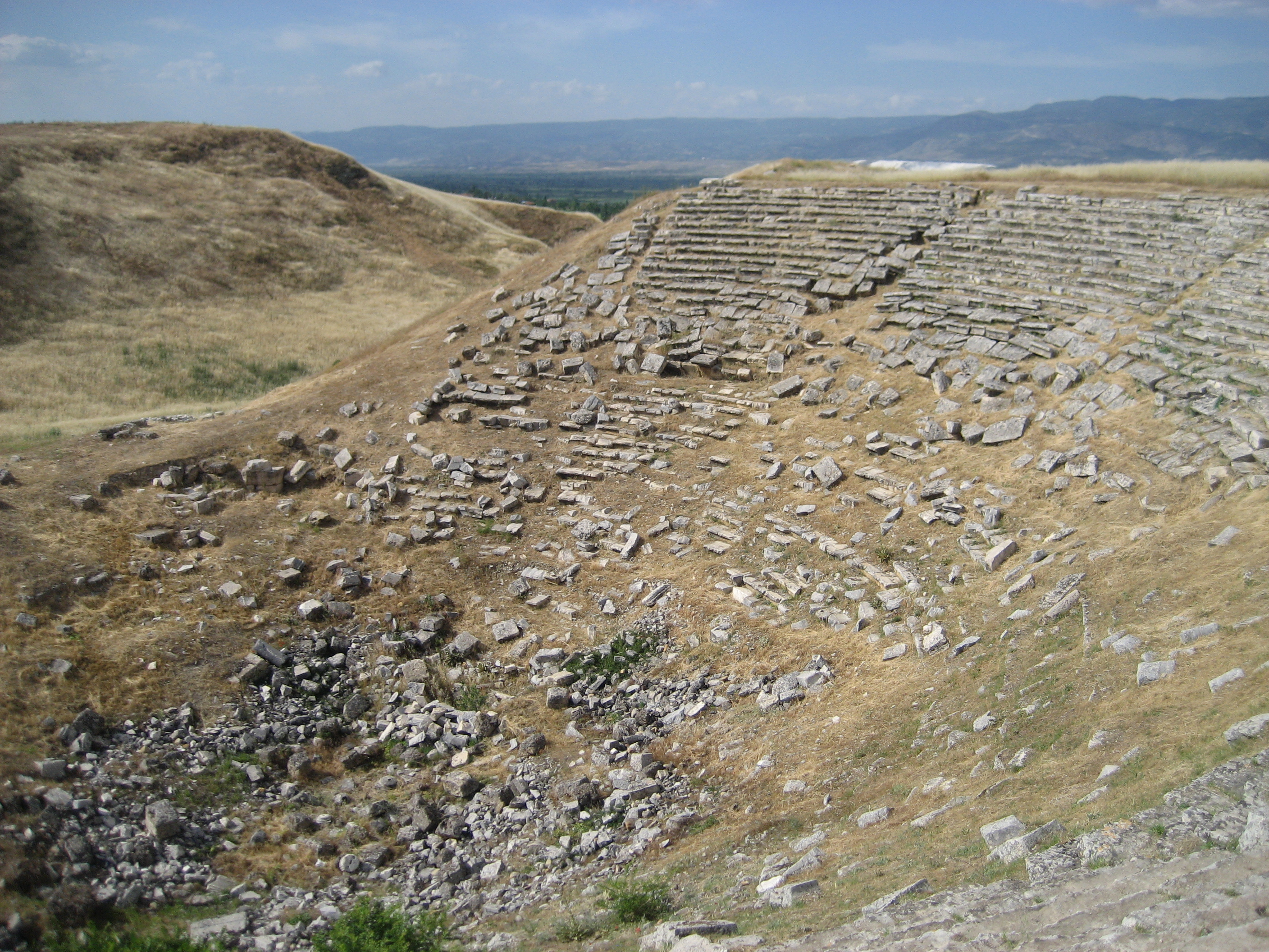 theatre 2